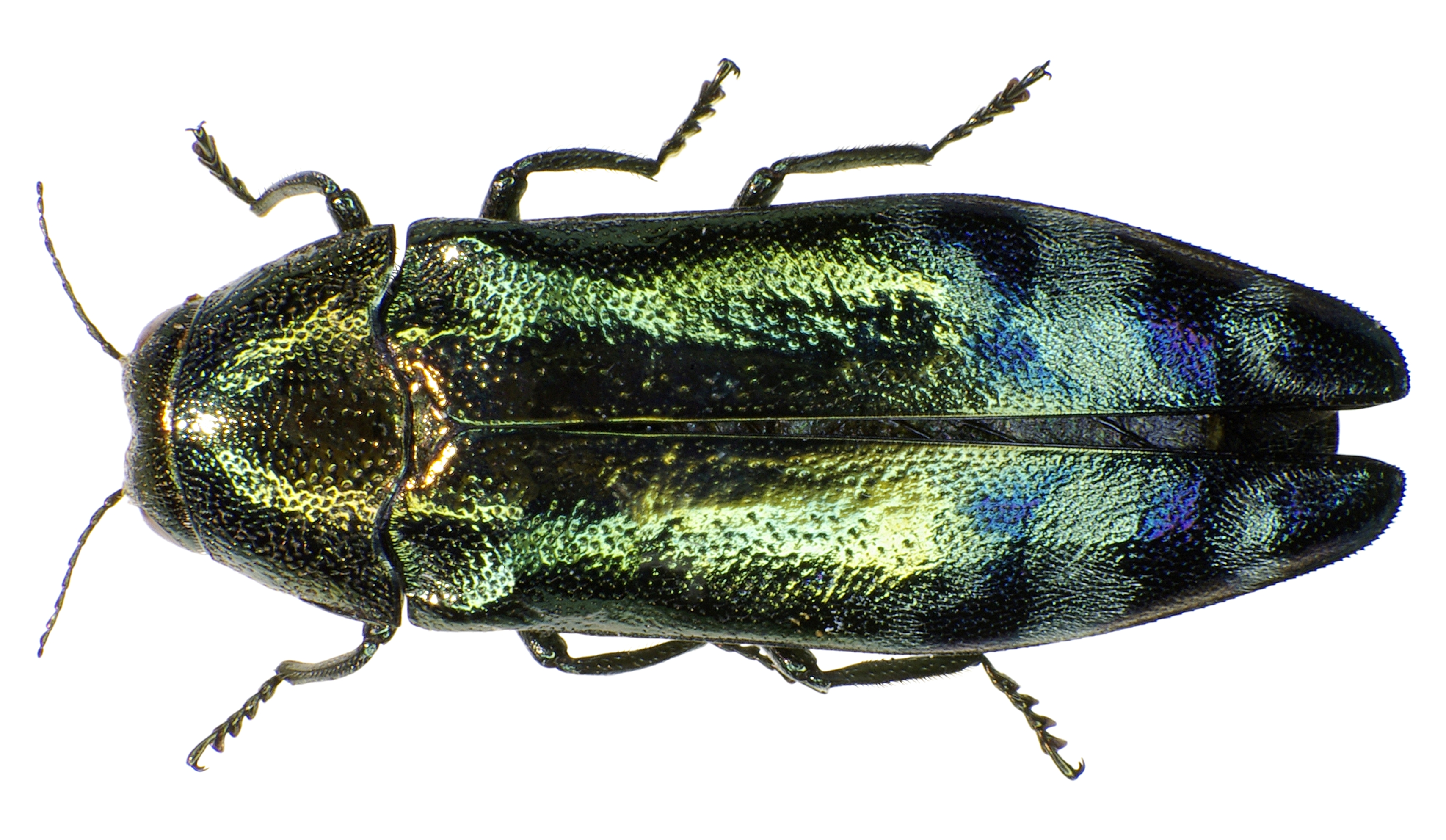 Coraebus florentinus